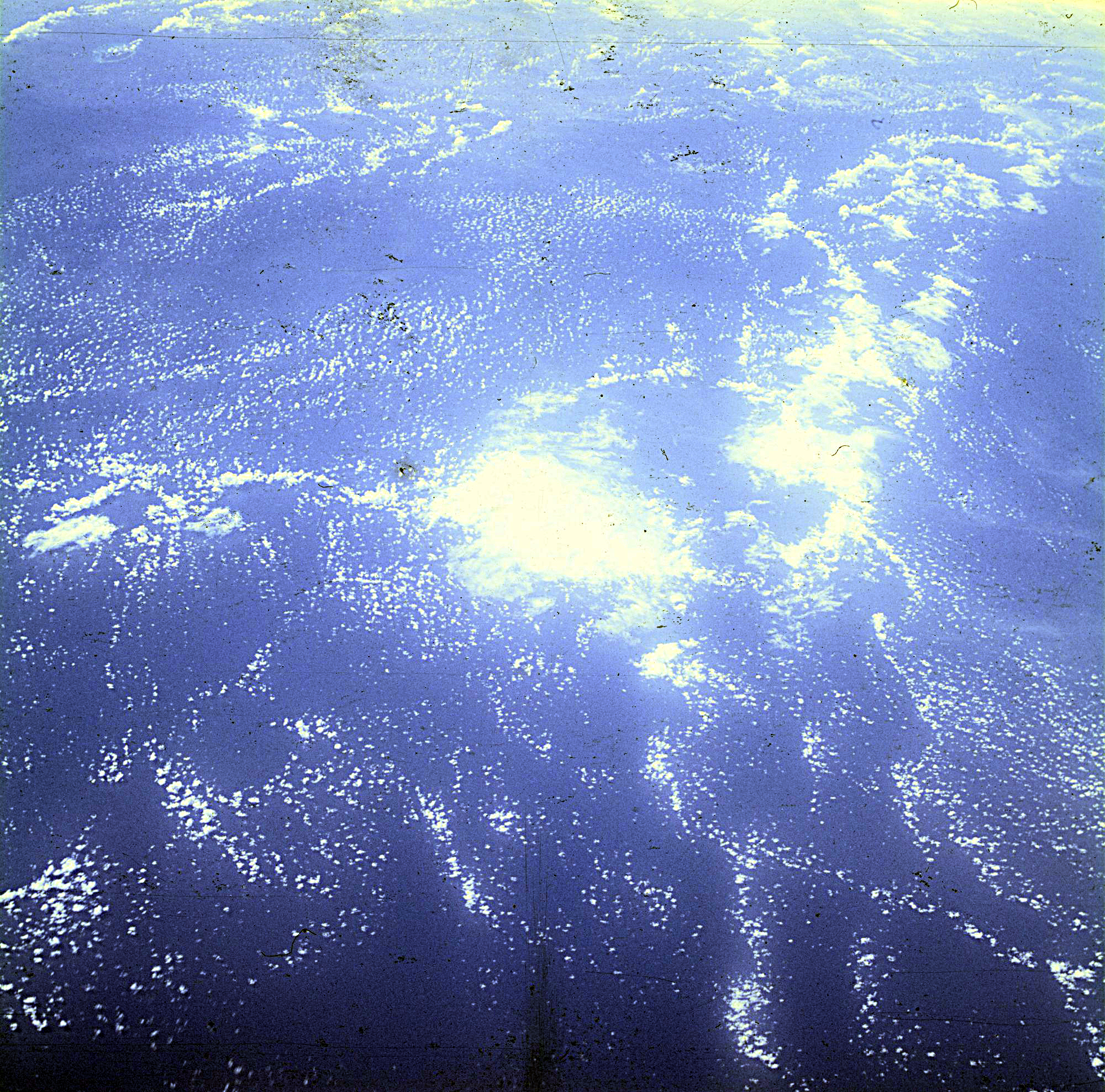 Cumulus cloud formation over West Atlantic Ocean north of South American during the fourth orbit pass of the Mercury-Atlas 8 mission by Astronaut Walter M. Schirra with a hand held camera.